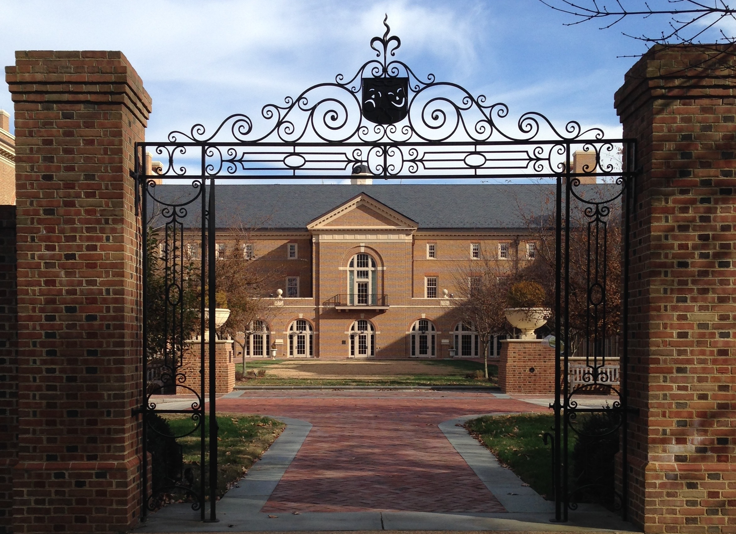 Back of the Alan B. Miller Hall